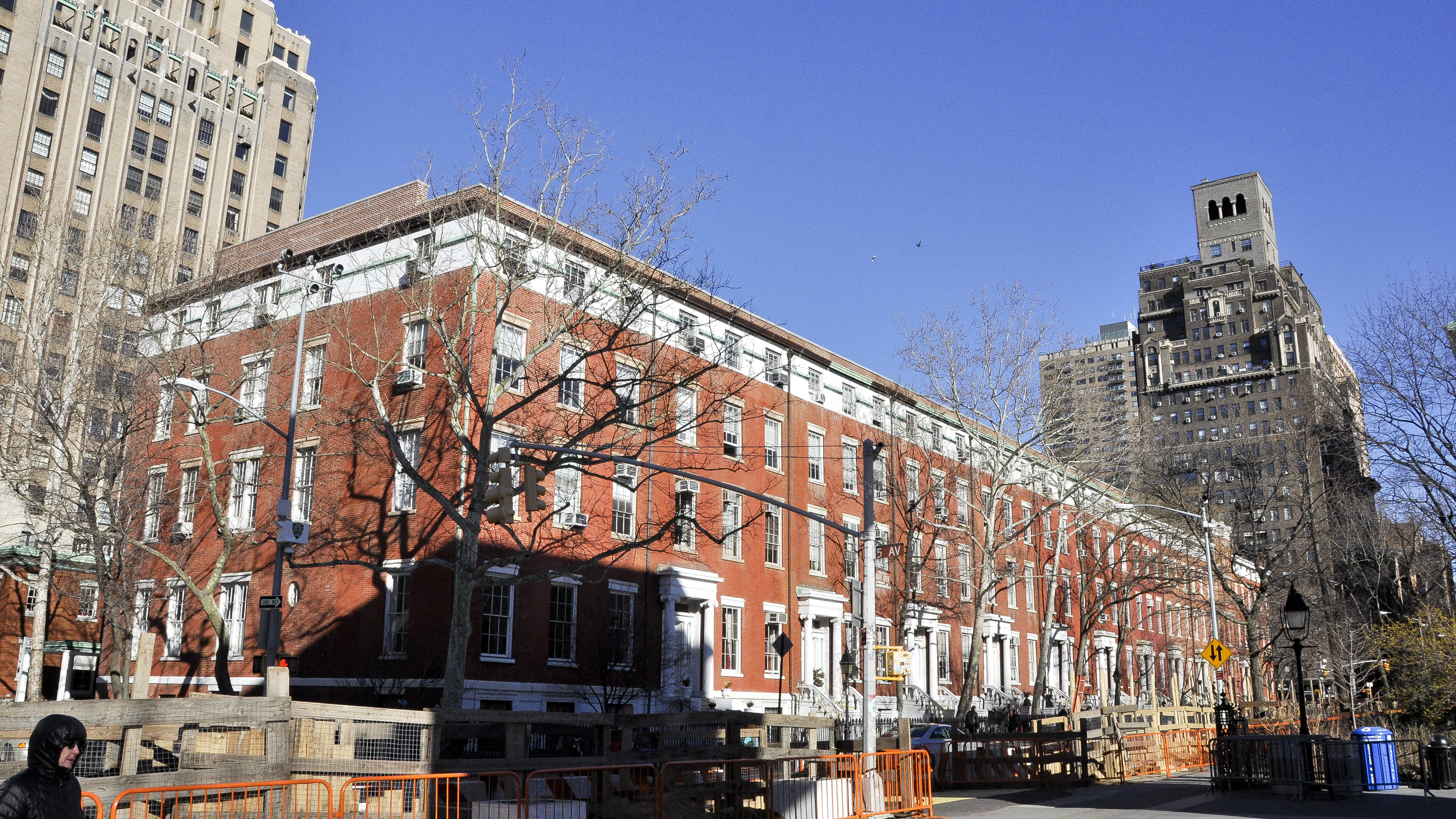 Greek Revival houses at Washington Square, NYC